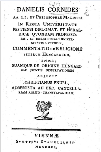 Title page of Cornides Dániel's work